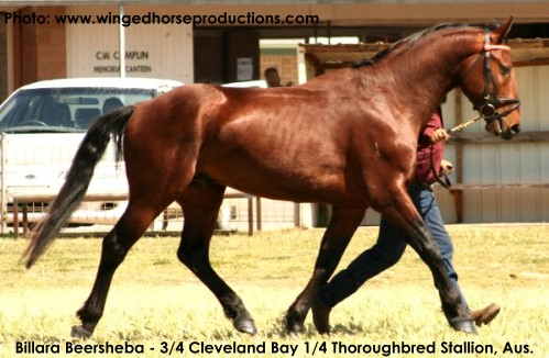 Billara Beersheba is a 3/4 Cleveland Bay 1/4 Thoroughbred Stallion, and is a beautiful example of a Cleveland Bay Sporthorse who would be suited to all areas of competition. He is what would have been known in the late 1800s as a Yorkshire Coach Horse being that he is 3/4 Cleveland Bay.